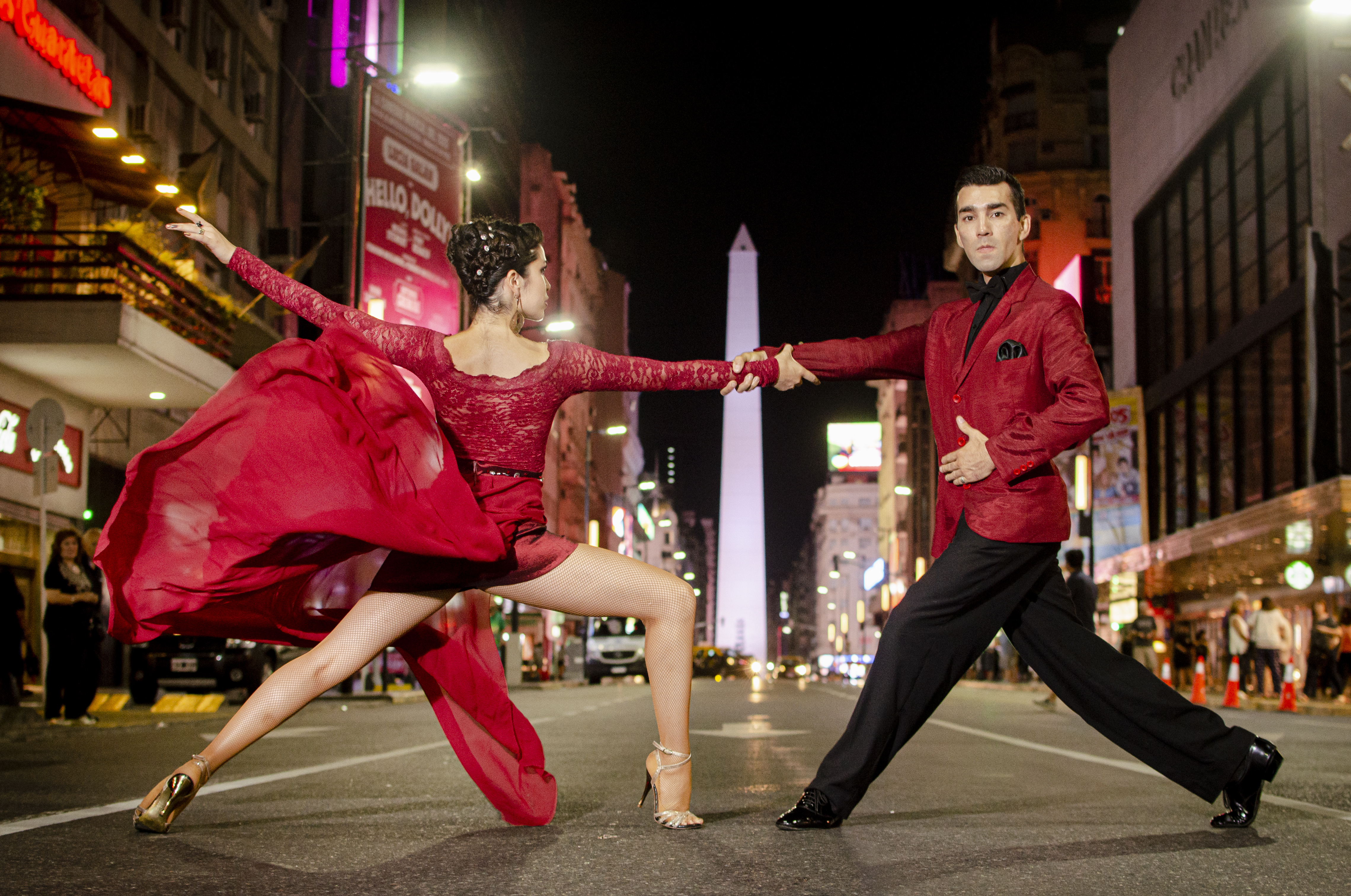 The grace and strength of tango, in the mythical Corrientes street of Buenos Aires This photo has been taken in the country: Argentina